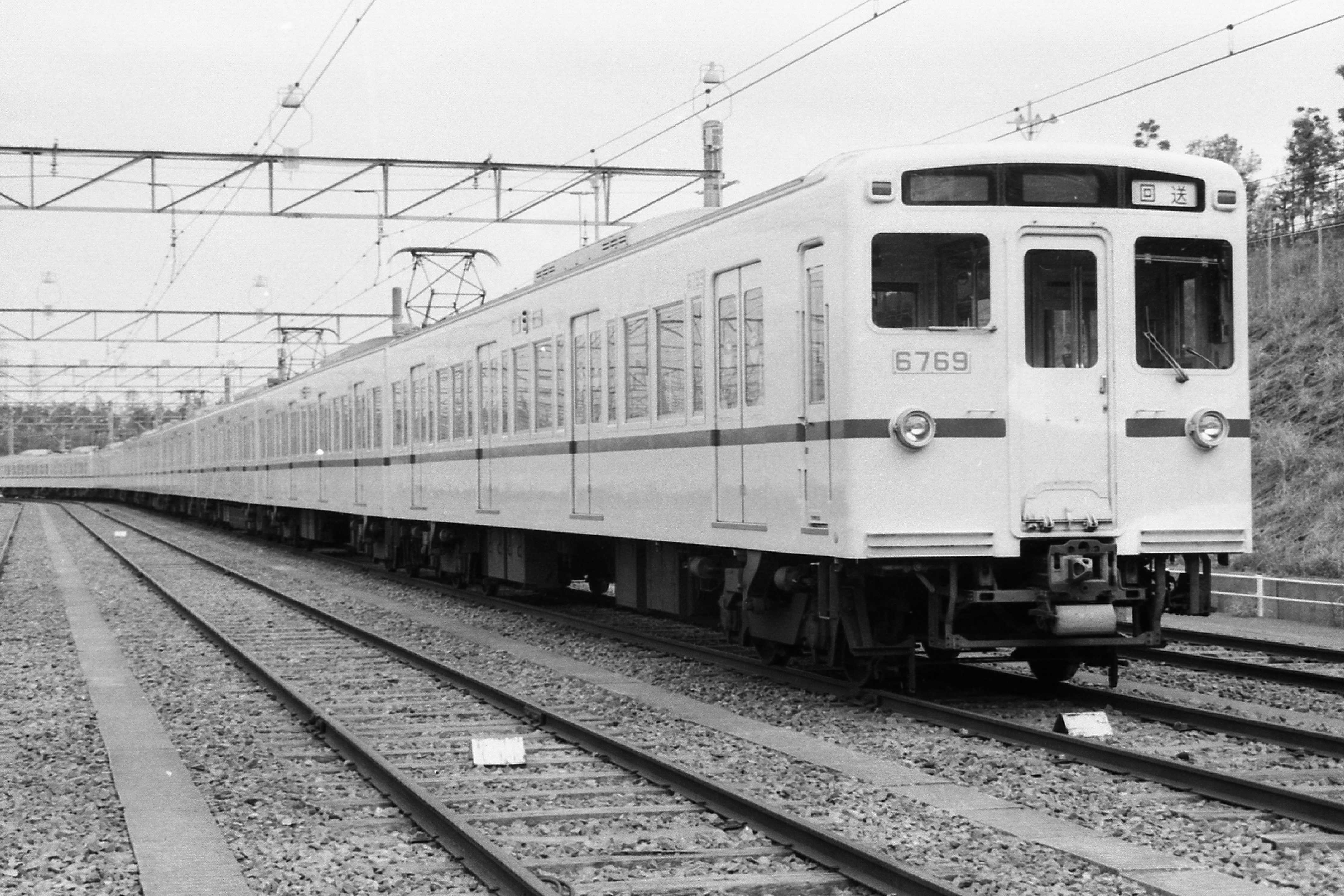 Keio unit 6719 at Wakabadai